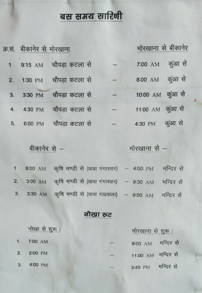 Bus Routes to and From Morkhana